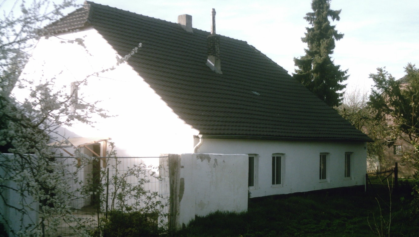 Traditional Farm Building in Bötzlöh, Viersen, Germany